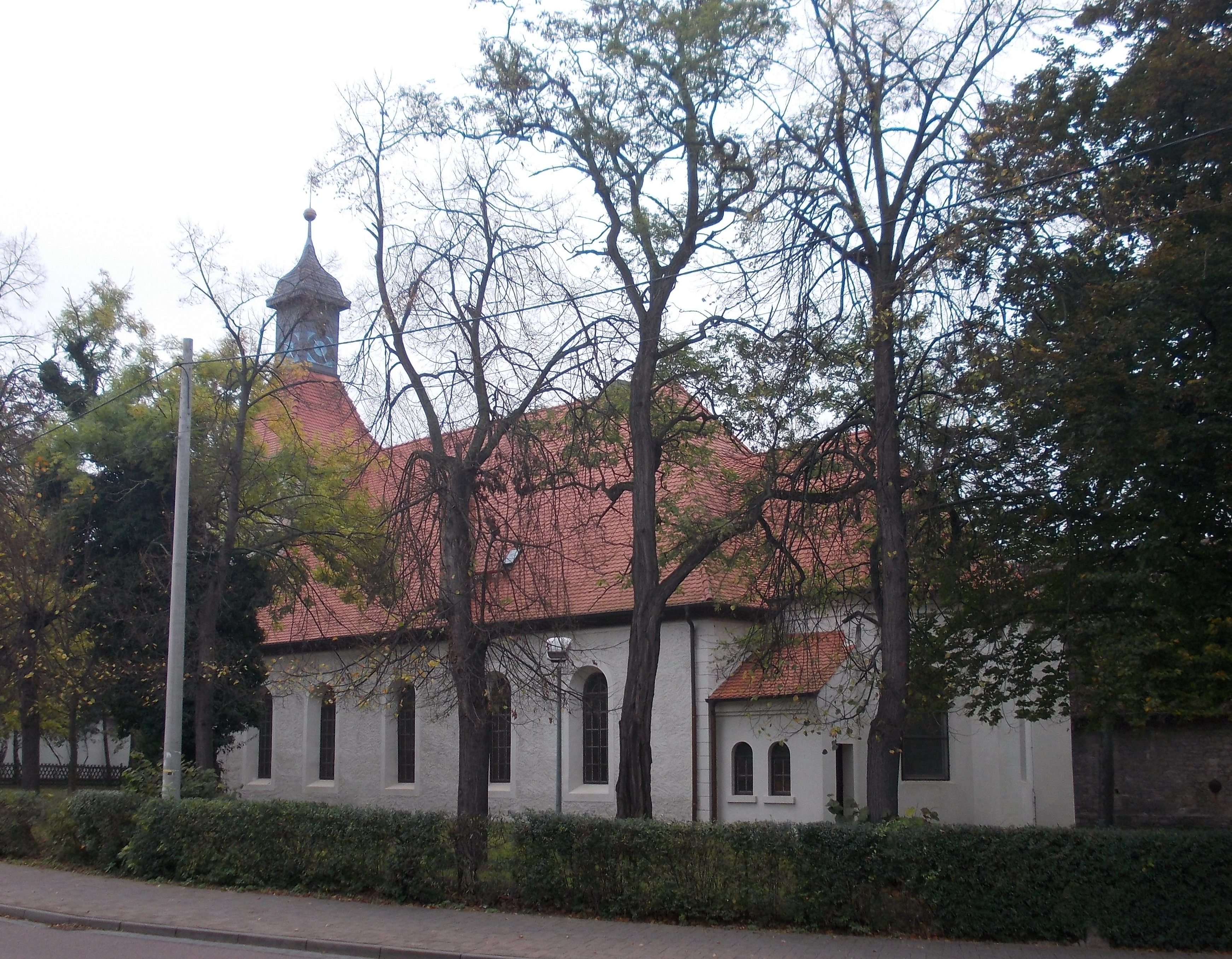 Wulfen church (Osternienburger Land, Anhalt-Bitterfeld district, Saxony-Anhalt)